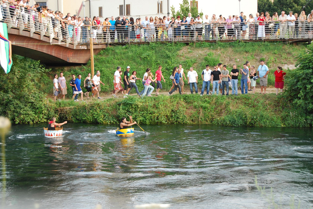 The traditional Palio della Tinozza competition in Rieti, Italy. 2008 edition.